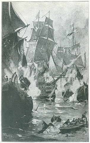 Illustration by Walter Zweigle in Der Flottenoffizier, the German translation of The Naval Officer by Captain Frederick Marryat. Published by Abel & Müller (1905). The first edition was published 1902.